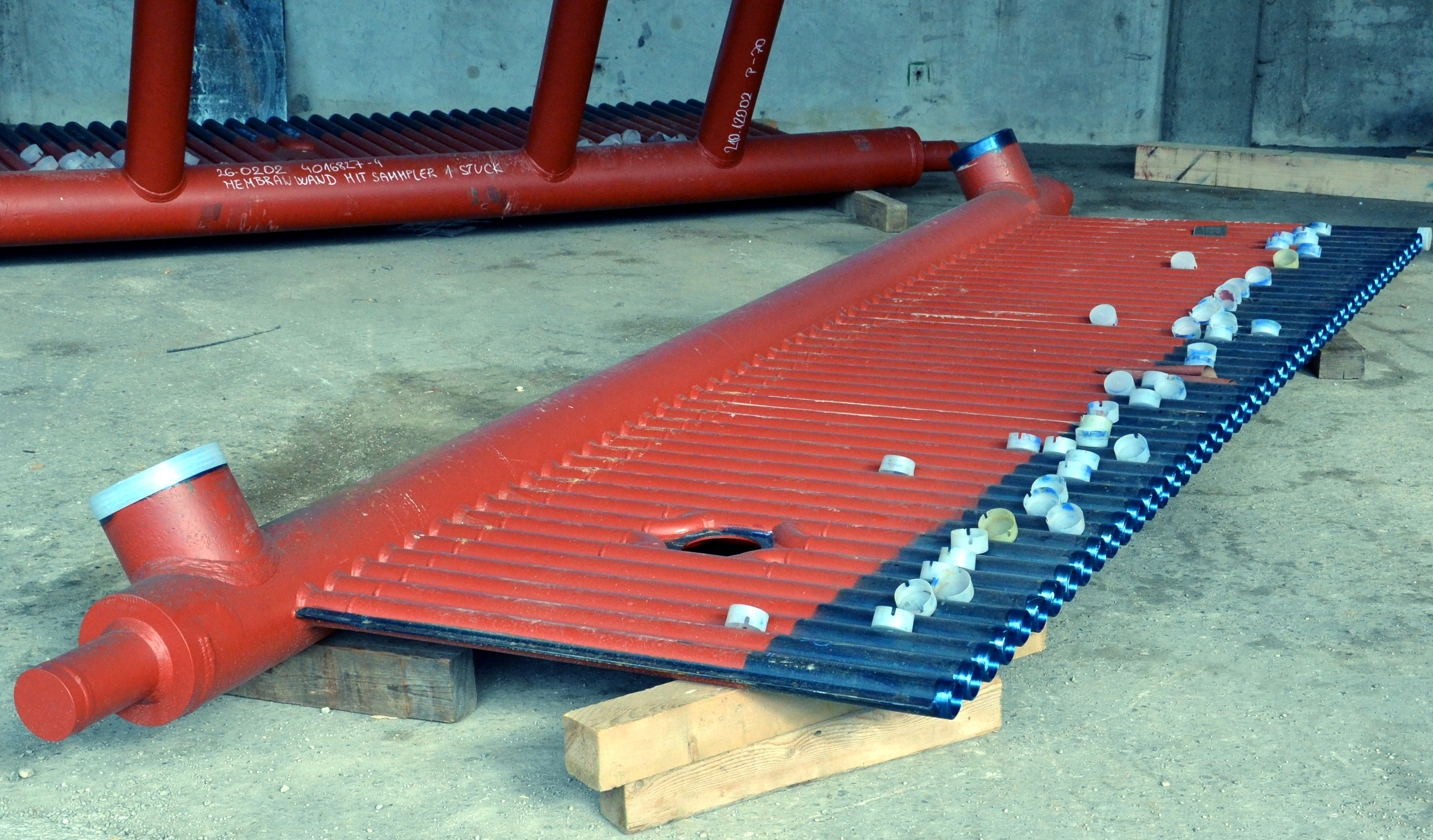 Part of a steam boiler